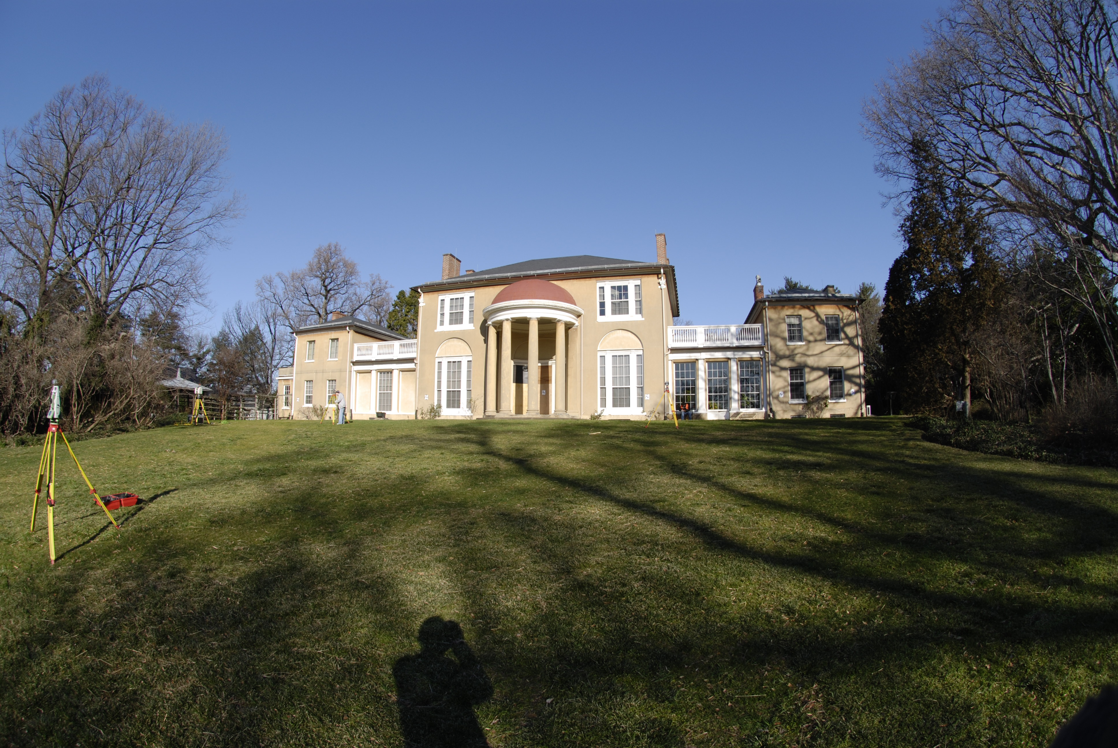 Southern Facade and Lawn of Tudor Place National Historic Landmark, District of Columbia